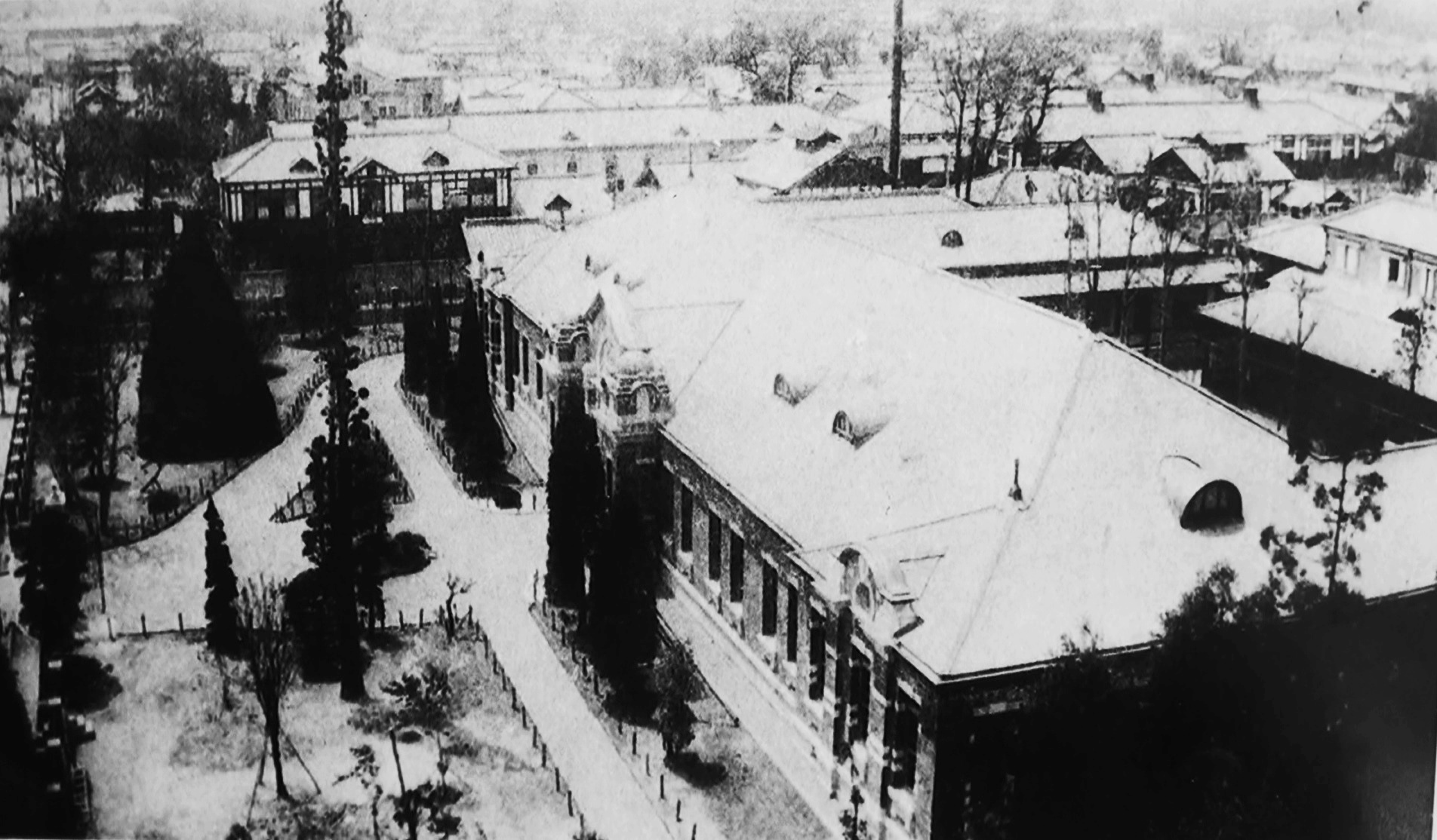 Kofu District Court in 1916